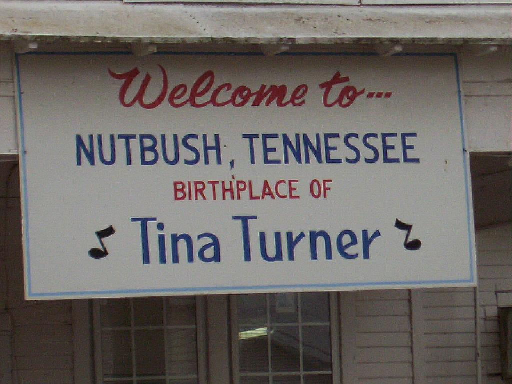 Image of a sign at the grocery store in Nutbush, TN. The sign reads: Welcome to... Nutbush, Tennessee Birthplace of Tina Turner (Please do not remove the full text of the sign, this makes it easier for blind people to convert to Braille and read it. Converting the text from the image would be hard to do. Thank you!)